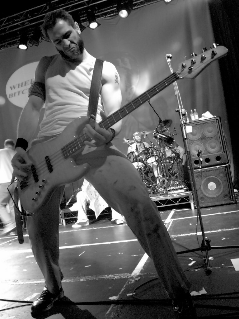 Jared HasselhoffDSC07917